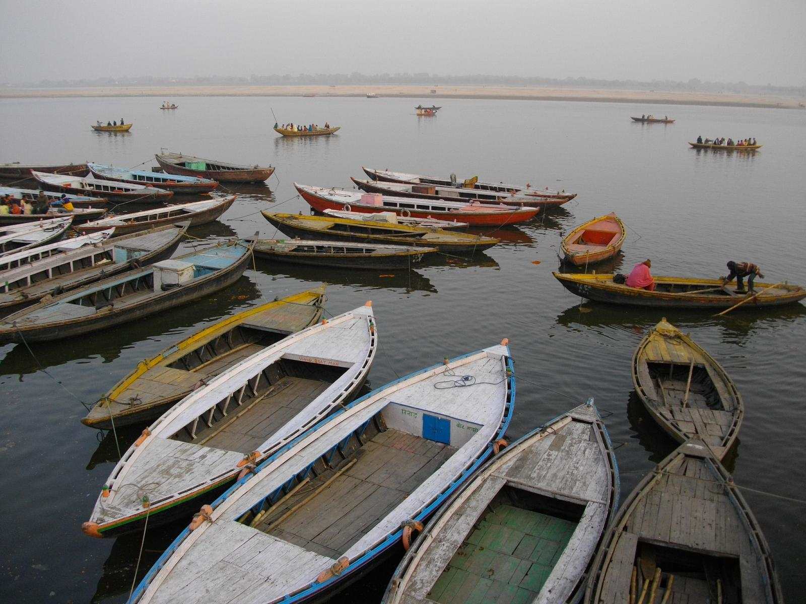 Boats by the ghats, on the Ganges, Varanasi.